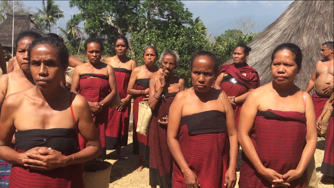 Baha Liurai.